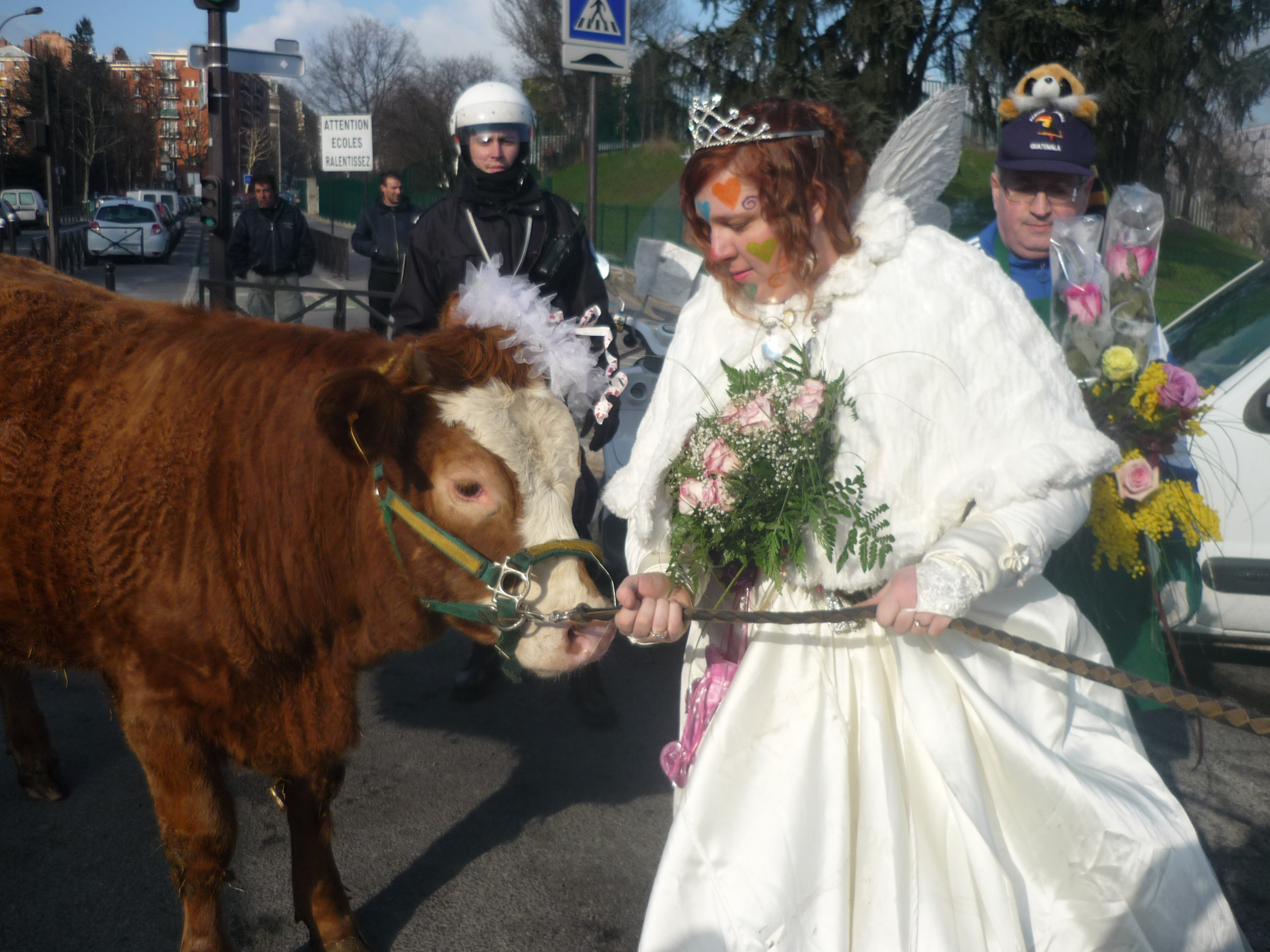 Alexandra Bristiel with Esmeralda, queen of the Paris'Carnival.